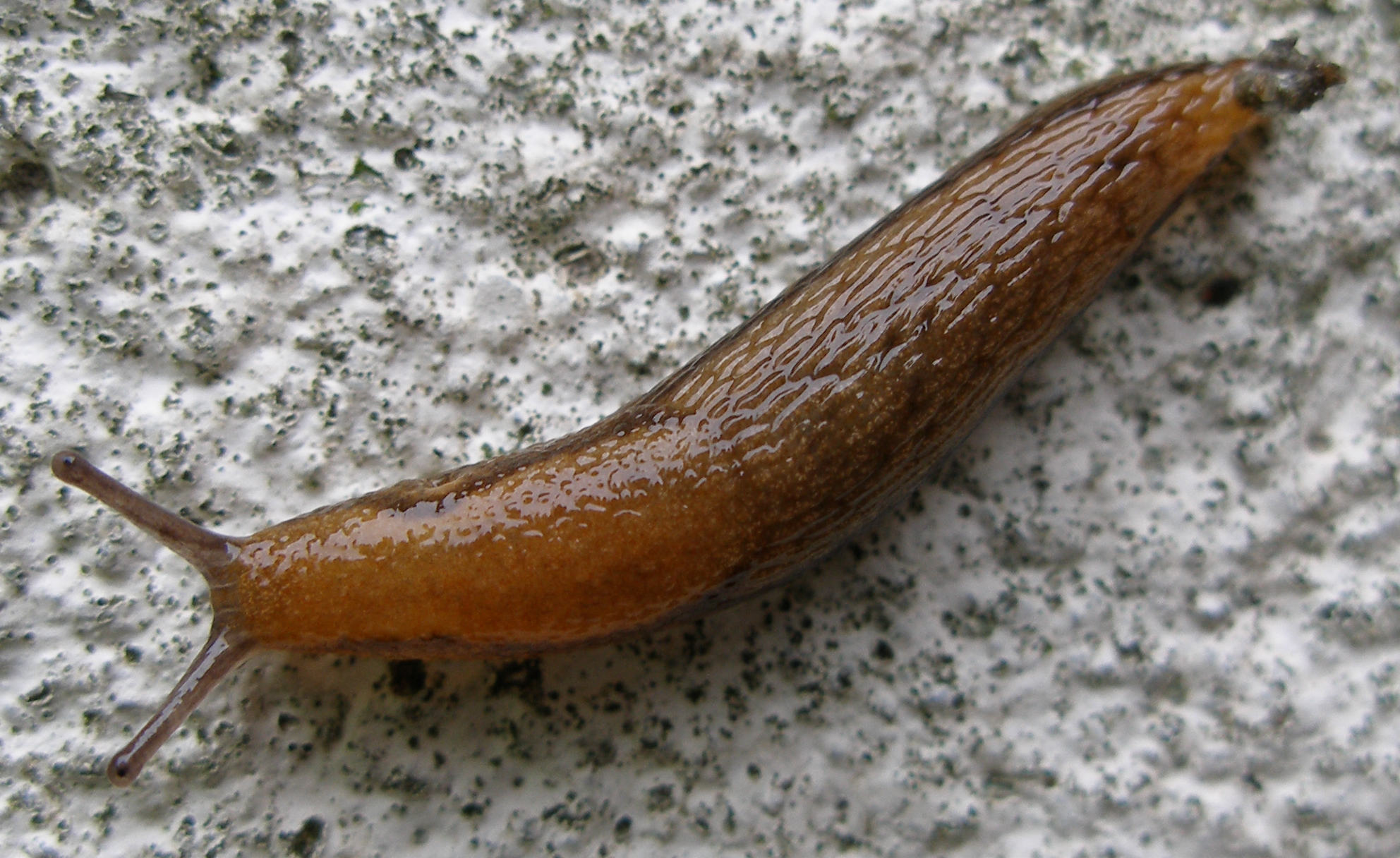 Living slug on painted brick wall. Picture taken in Leikanger, Sogn og Fjordane, Norway.